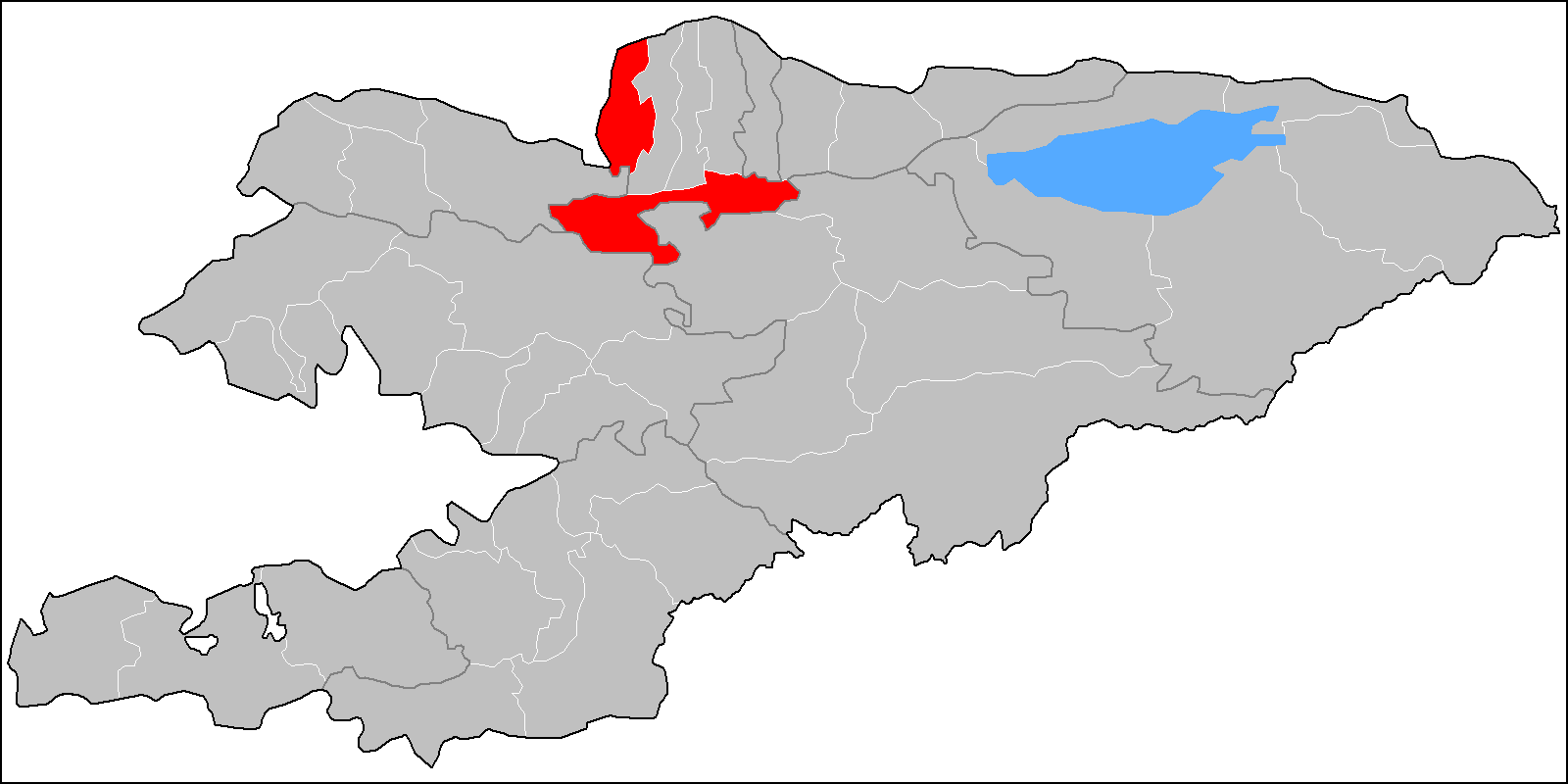 The location of the raion (district) of Panfilov in Kyrgyzstan. Based on Image:Kyrgyzstan raions.png